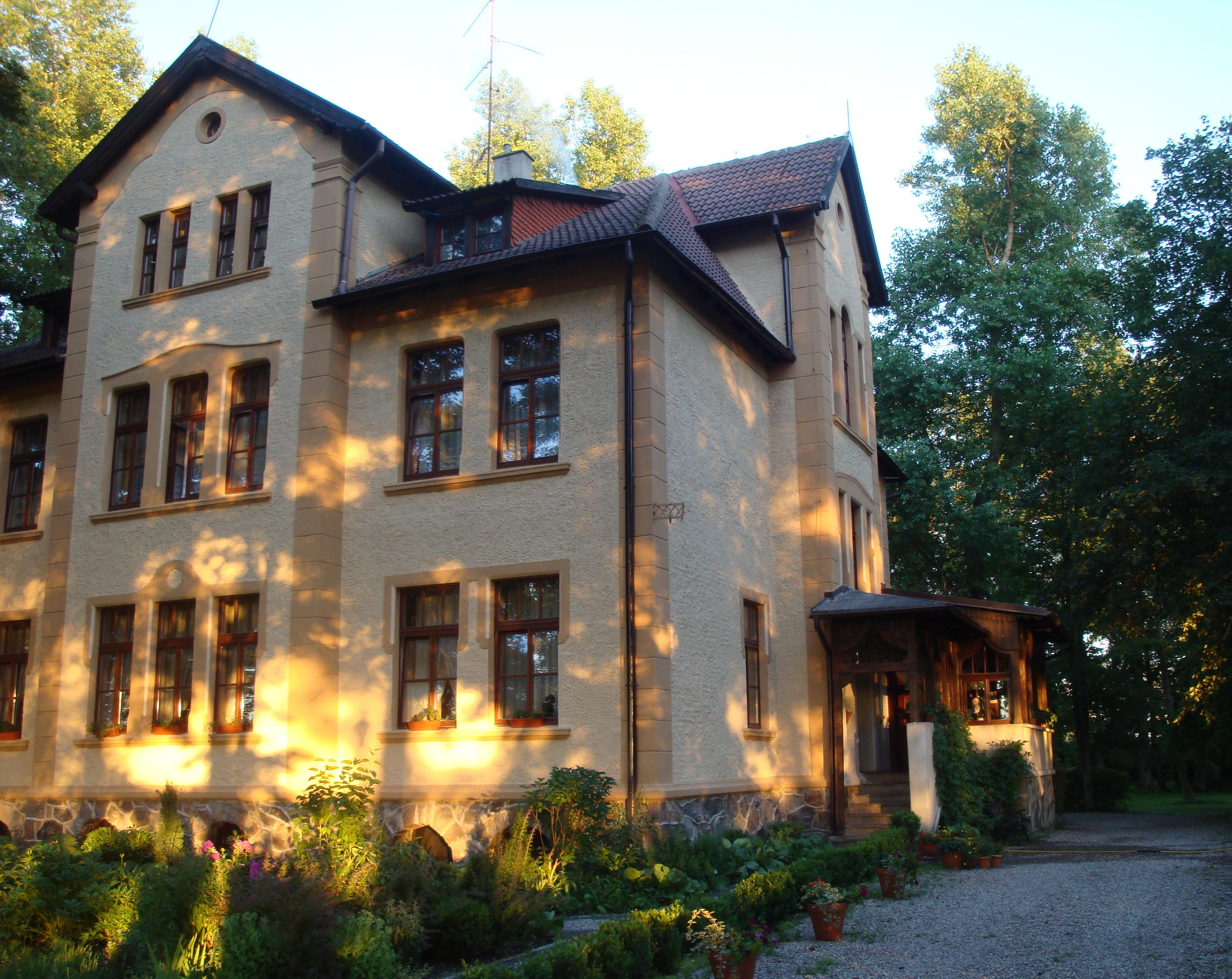 Poraj-village in Pomeranian Voivodeship, Poland. Building of Peat Institute, presently restaurant